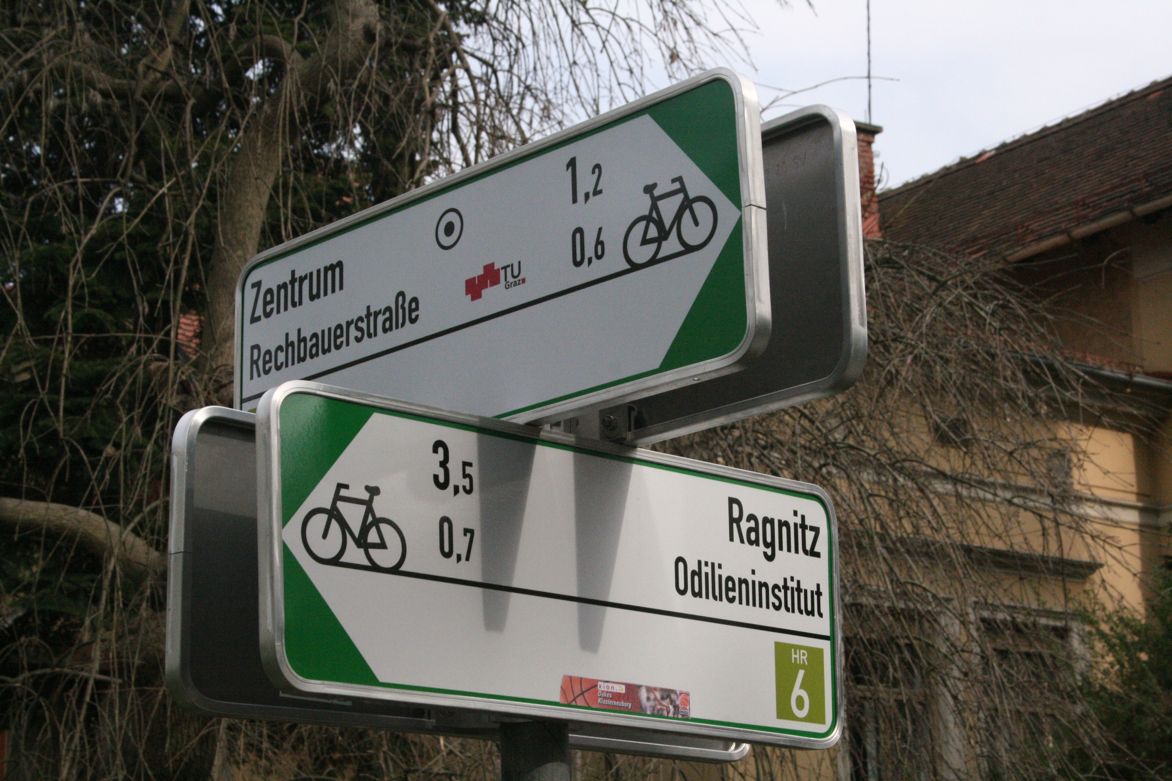 Marker for cyclists in Graz, Austria, Europe